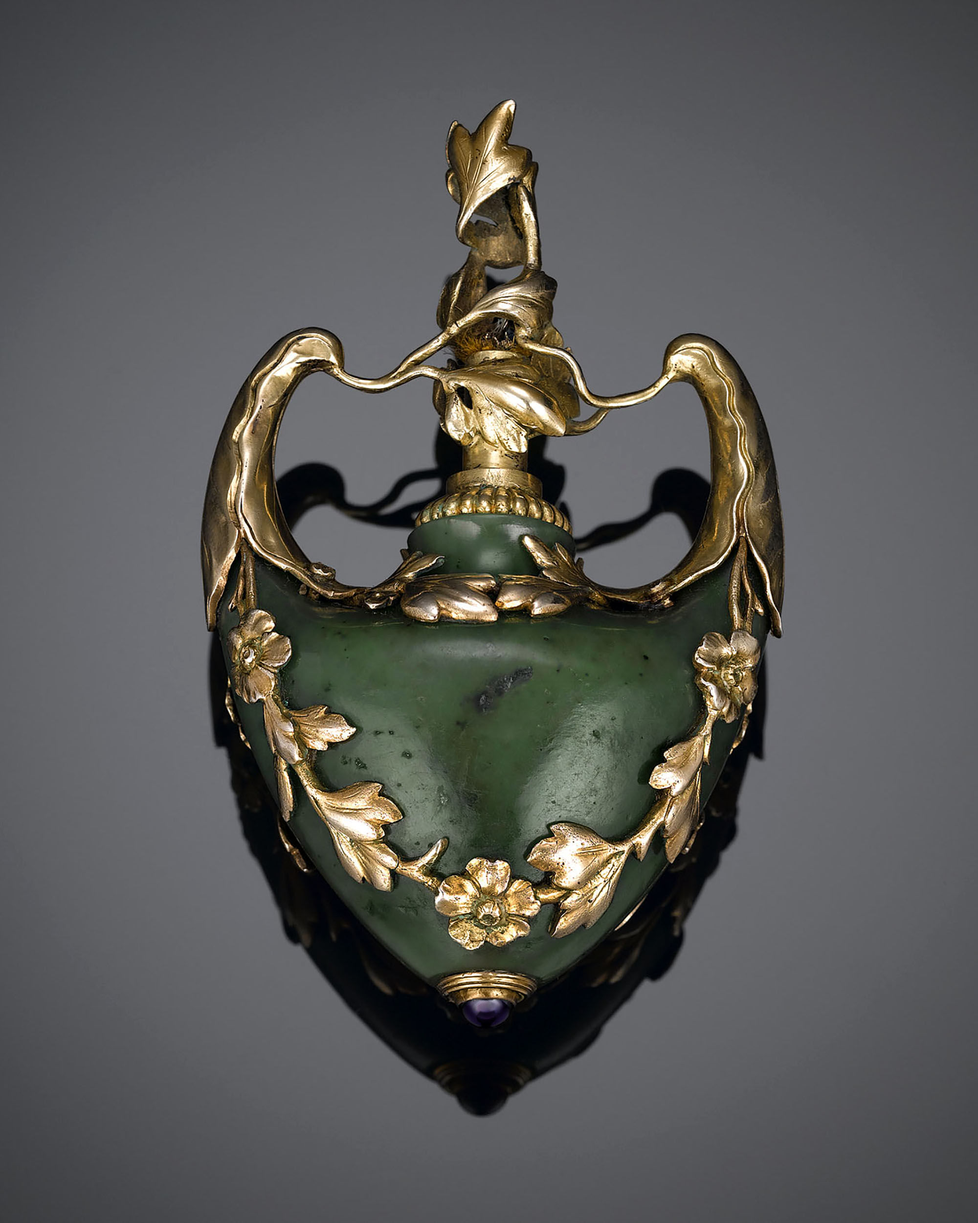 Nephrite Jade Bell Push by Fabergé. Circa 1890